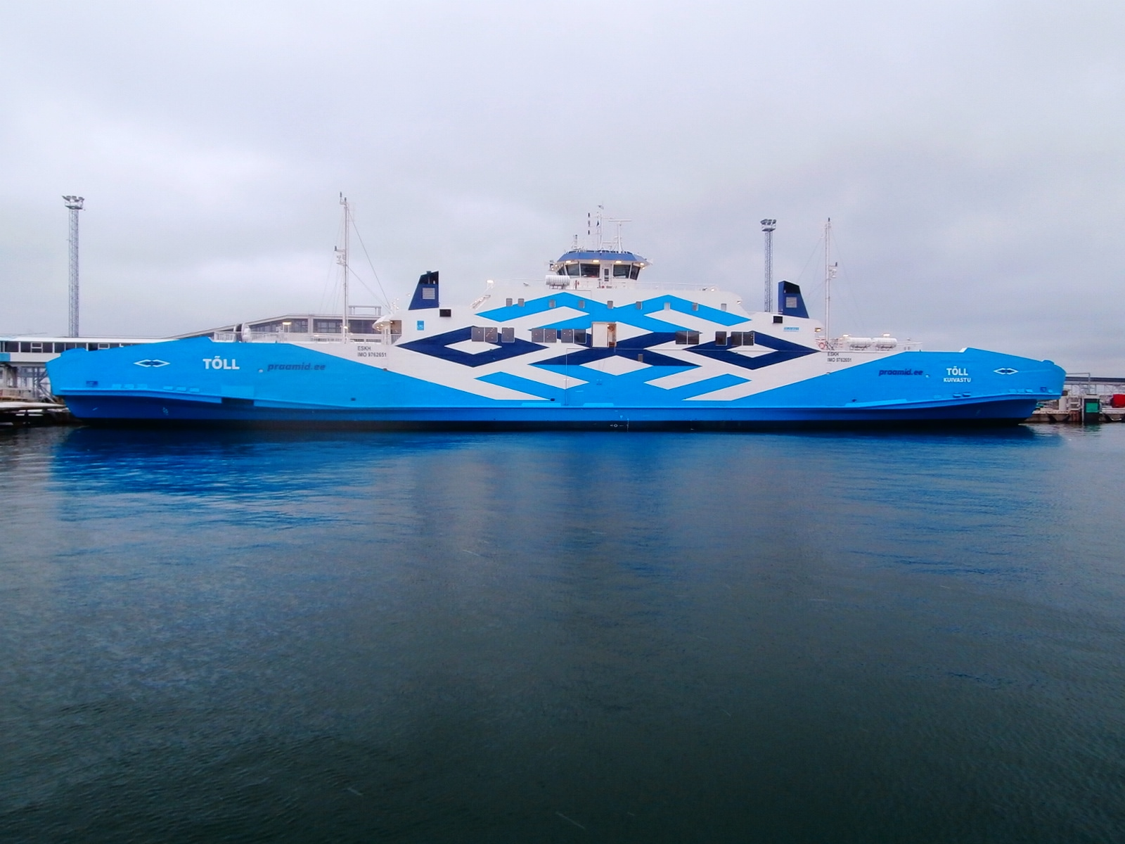 Tõll port side, Port of Tallinn 15 January 2017